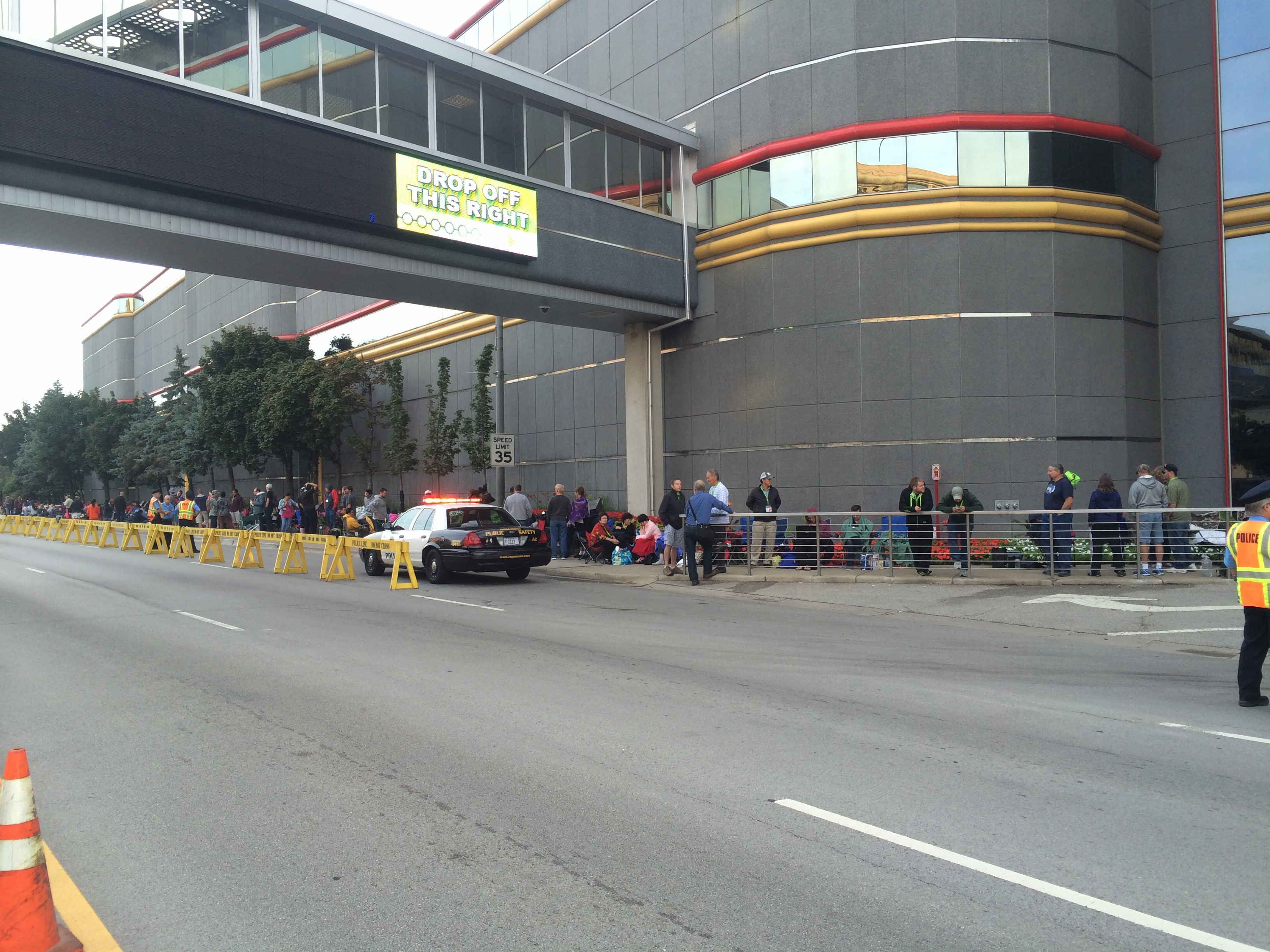 People lined up for the new Kennedy gold half-dollar Credit Wehwalt/Wikipedia